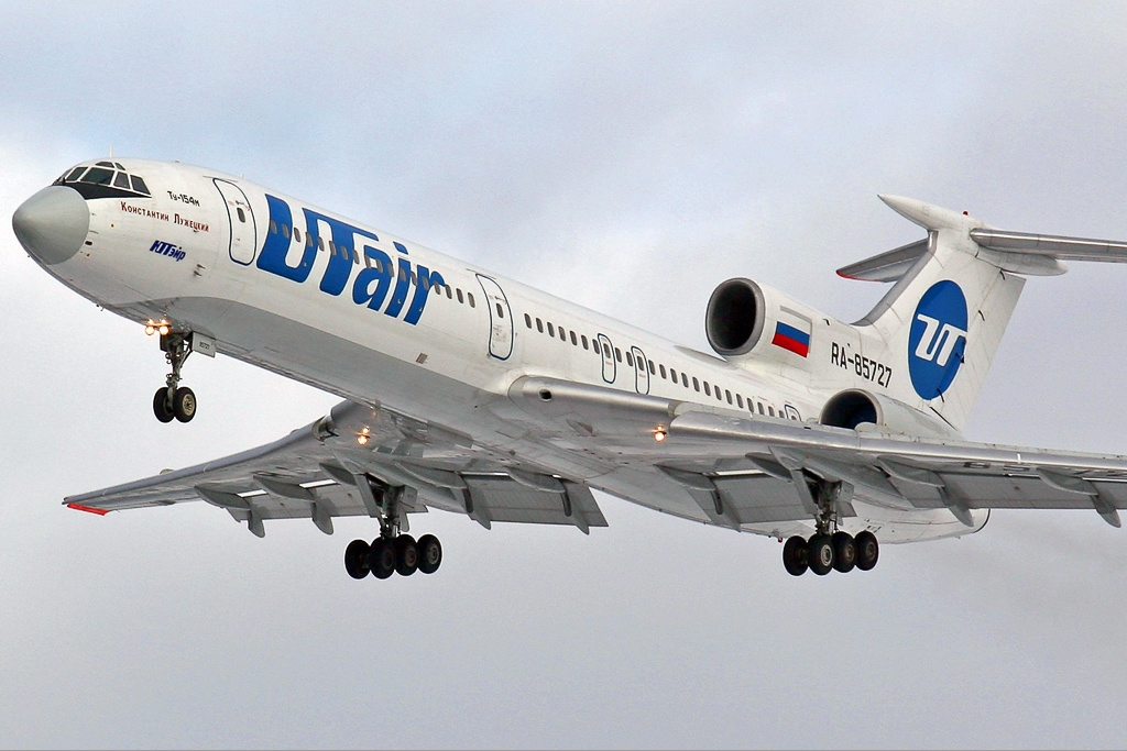 RA-85727, UTair Aviation Tupolev Tu-154M, Vnukovo International Airport